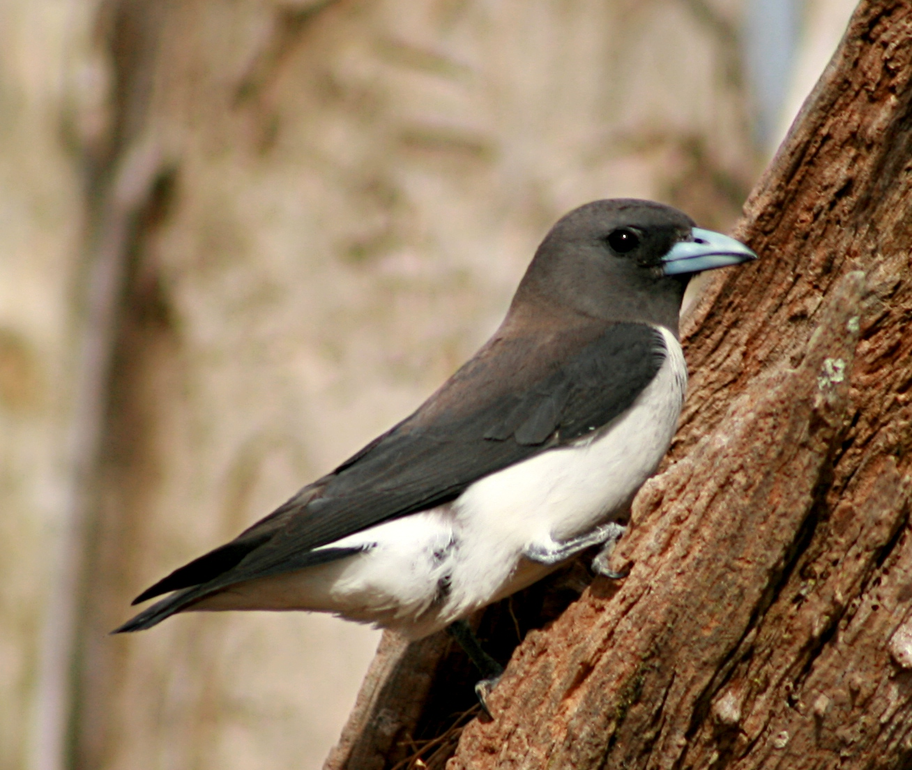 A White-breasted Woodswallow (Artamus leucorynchus) perched at its nest on the foreshore of the lagoon between MacMasters and Copacabana beach on the central coast of New South Wales, Australia.